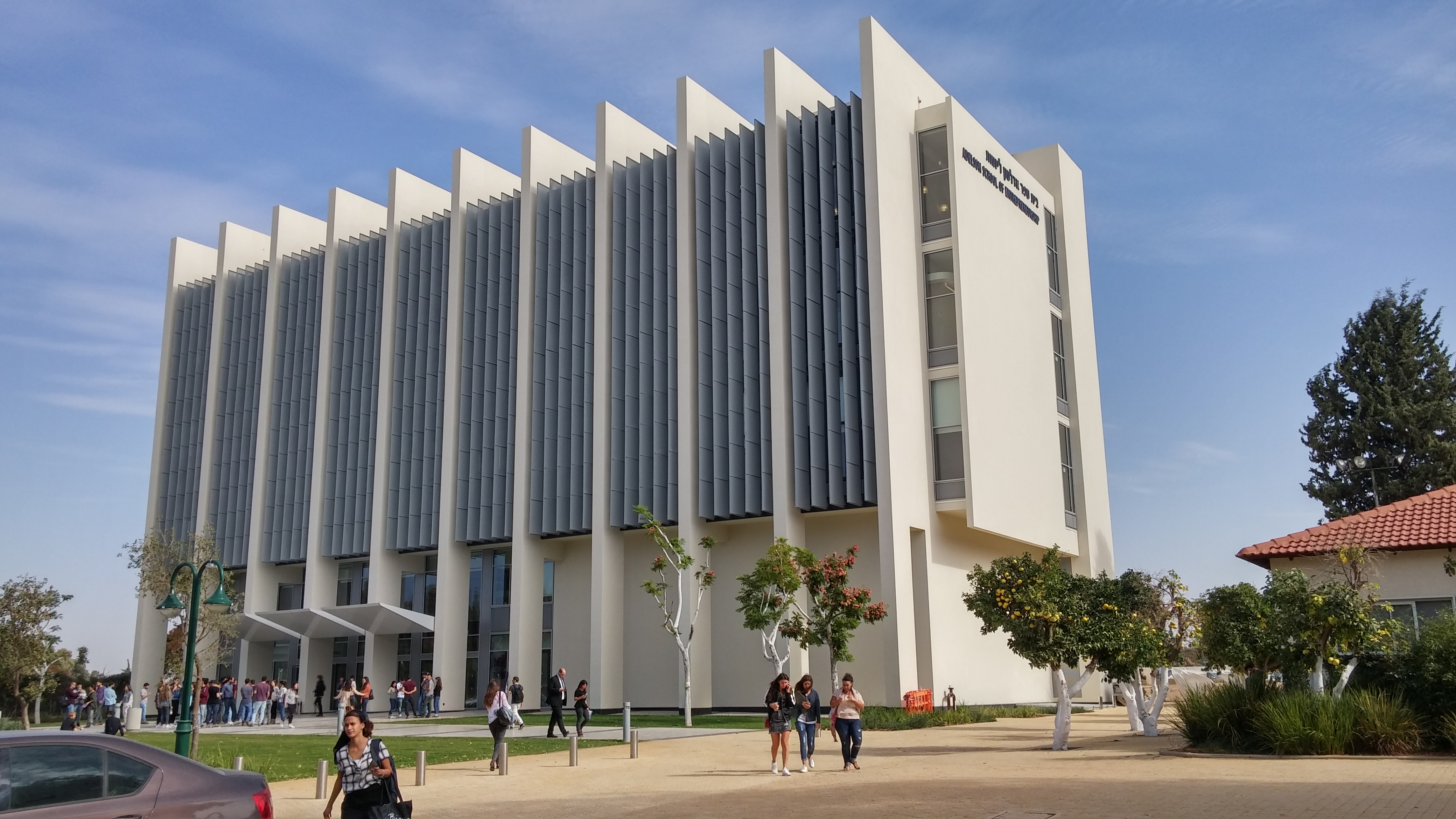 Adelson School of Enterpreneurship, Interdisciplinary Center Herzliya